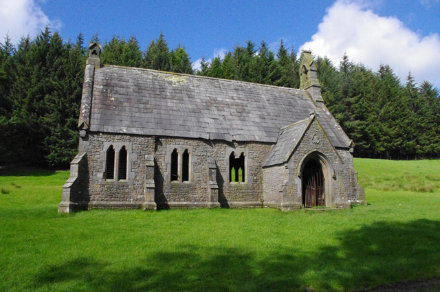 Littledale "Free" Church, Caton-with-Littledale, Lancashire, seen from the south. Built for the Rev. John Dodson of Littledale Hall, who left the Church of England in protest at the Gorham judgement. The building is now as a store for agricultural implements.